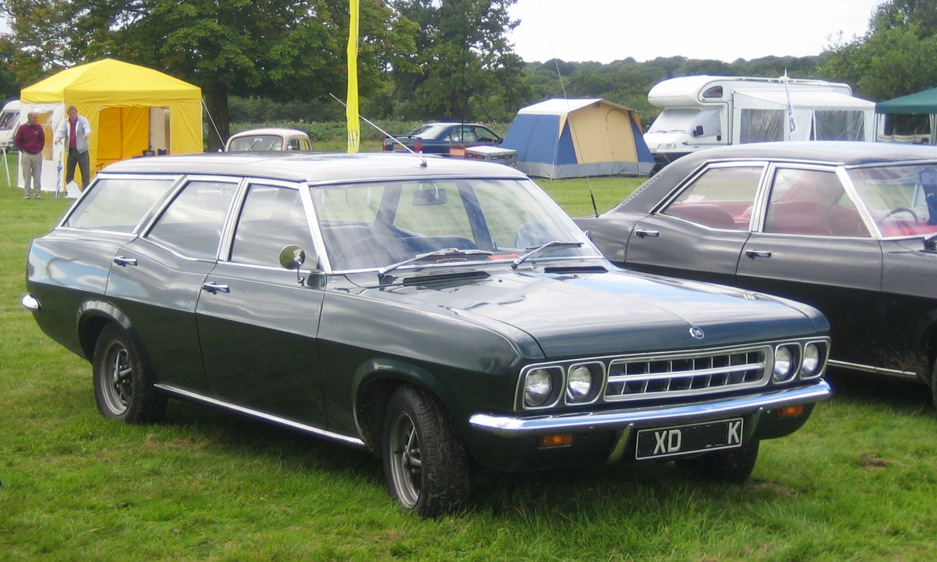 Vauxhall Victor FD 3.3SL estate in a field in Hertfordshire